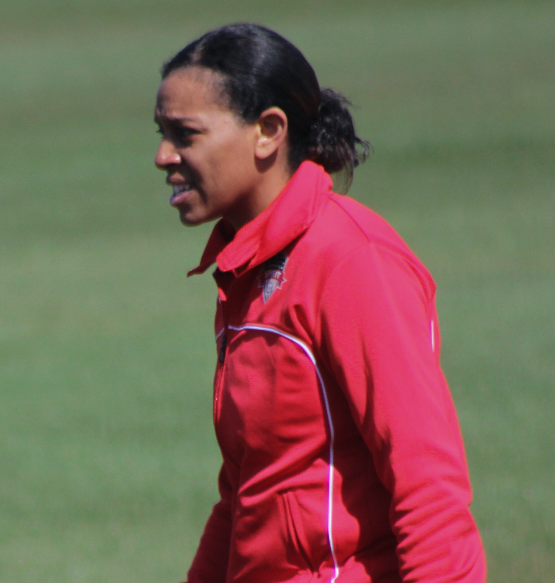 Candace Chapman (Washington Spirit)